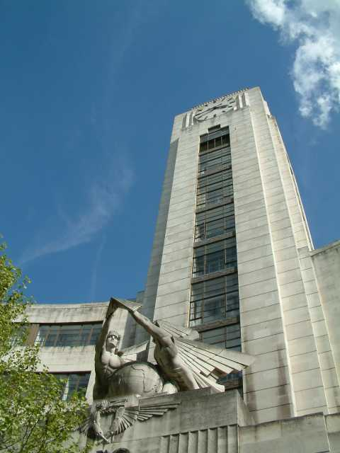 National Audit Office - Buckingham Palace Road - Victoria - - London - England - photo by and copyright Tagishsimon - 2 May 2004 National Audit Office building, previously the Imperial Airways Empire Terminal. The statue, "Speed Wings over the World" is by Eric Broadbent"